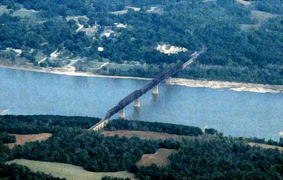 Mississippi River Rail Bridge at Thebes, IL